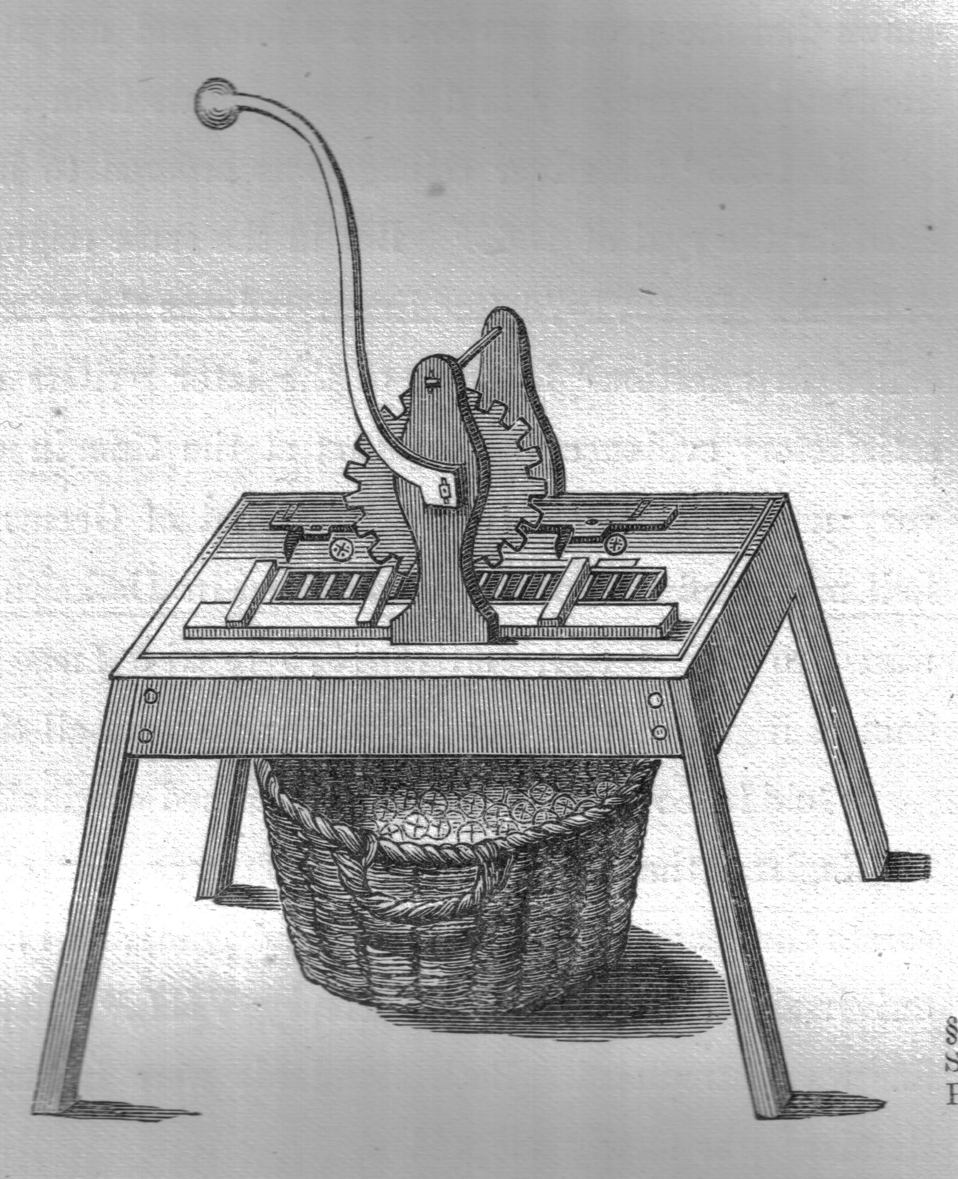 A mill for puting edge inscriptions on coins